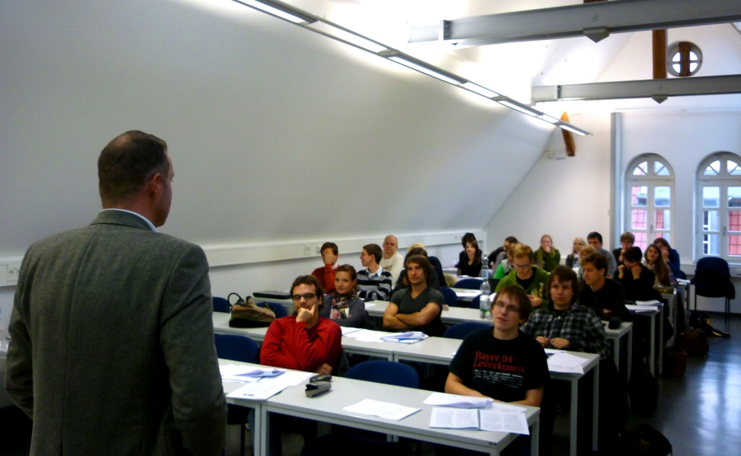 A lecture on the matters of Data protection, held at the ITM by Dirk Schmuck (Atos Origin GmbH)